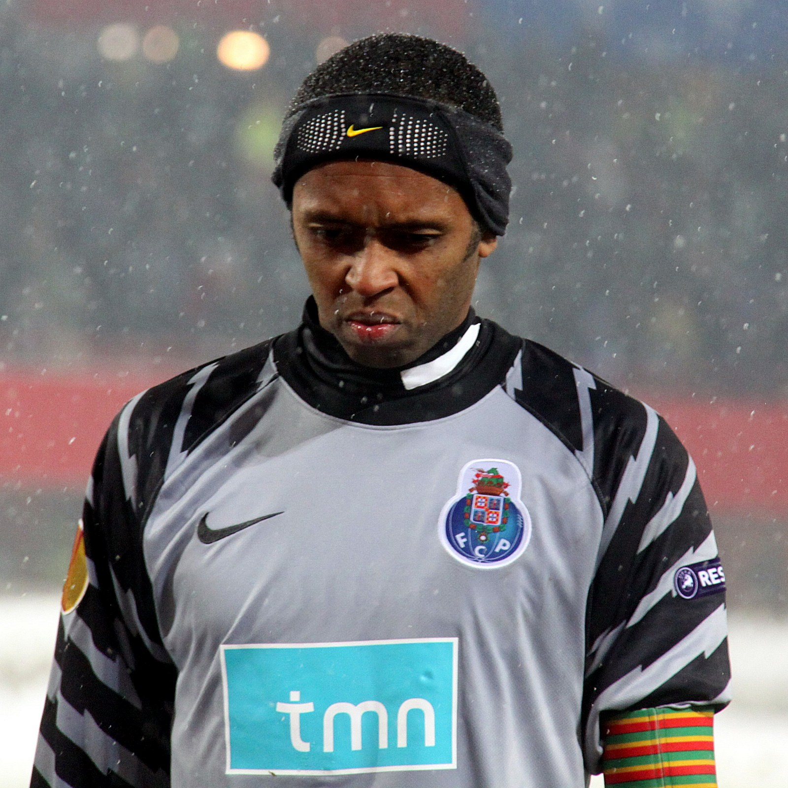 2010–11 UEFA Europa League - SK Rapid Wien vs. F.C. Porto 1:3 Ernst-Happel-Stadion (Vienna) – The brasilian goalkeeper and captain of F.C. Porto Helton Arruda.